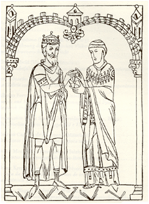 Miro of Galicia and Martin of Braga, from an 1145 manuscript of Martin's De virtutibus quattuor (Federzeichnung lm Co. 791, fol. 109v), now in the Austrian National Library. Available here.